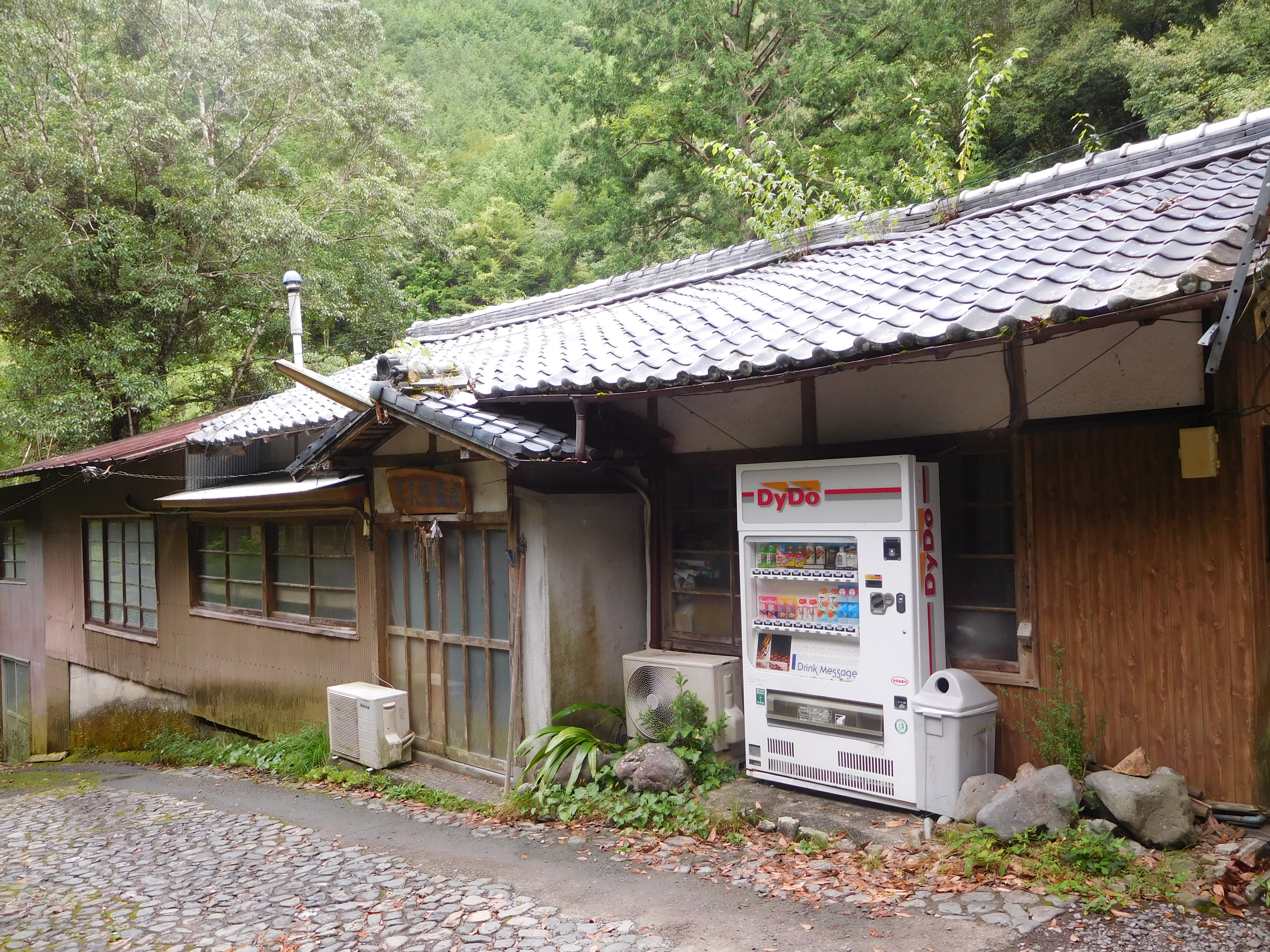 This is Ariku-ji Spa in Kihoku, Mie, Japan.